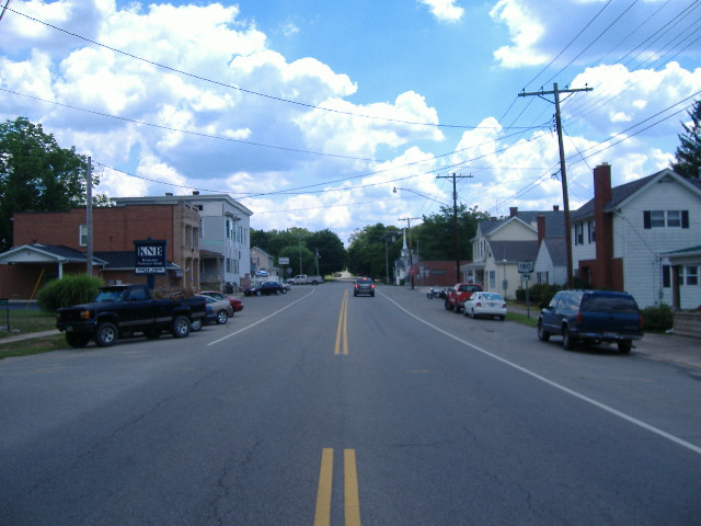 Looking east on Ohio Highway 180 in Adelphi, Ohio.